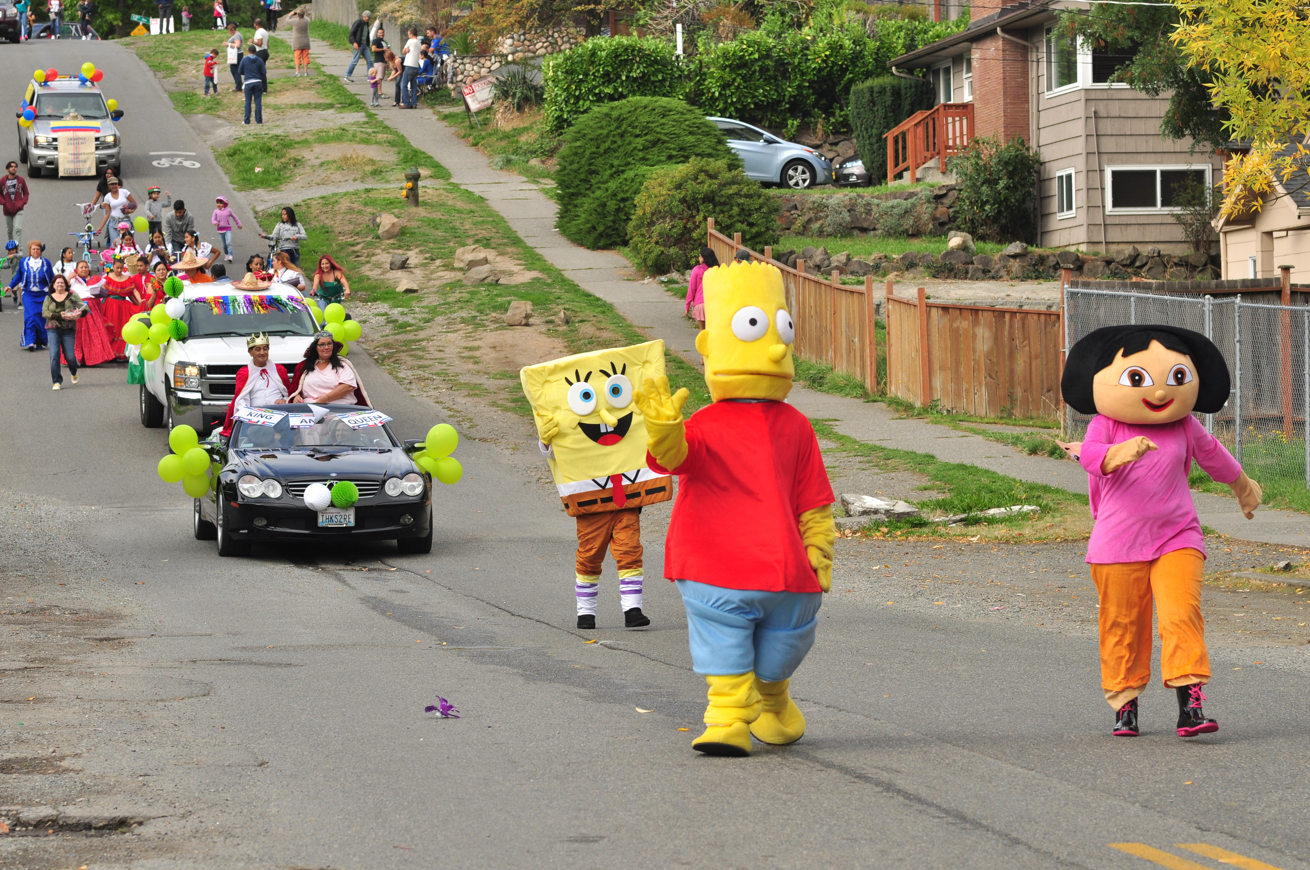 Fiestas Patrias Parade, South Park, Seattle, Washington, U.S., September 19, 2015 - 099 - Sea Mar Child Development